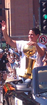 Mark Cuban at the champs parade